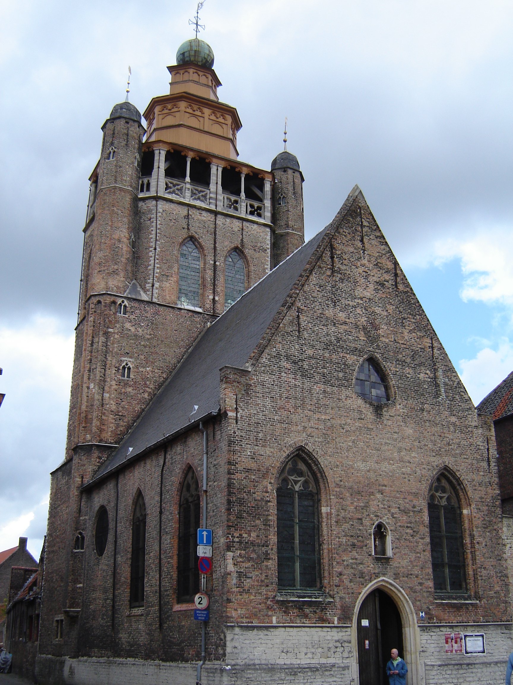 "Jeruzalemkerk" (Jerusalem Church) in Brugge. Brugge, West-Flanders, Belgium.